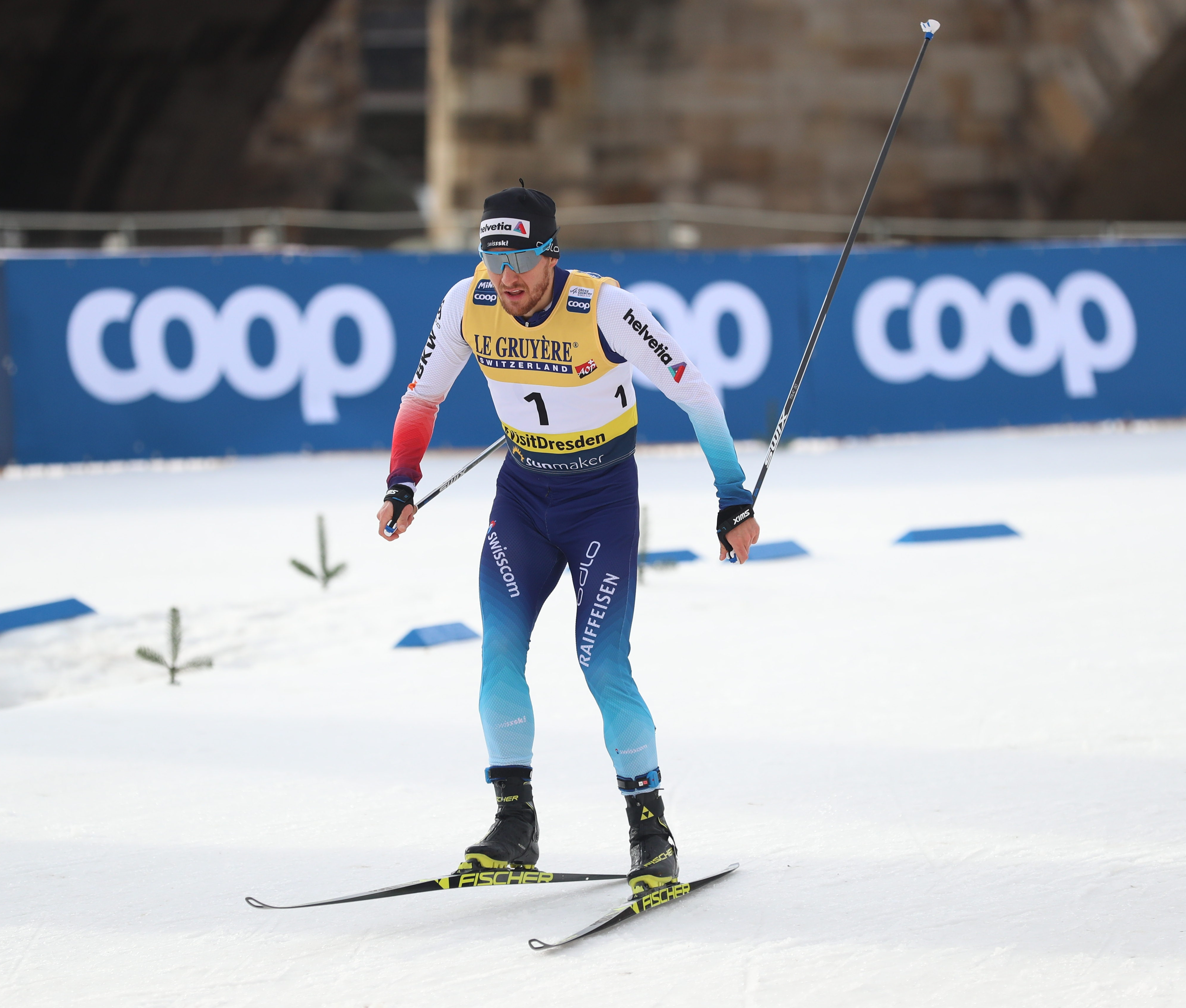 Men's Qualification at the FIS Cross-Country World Cup Dresden 2019 (1.6 km Free Sprint)